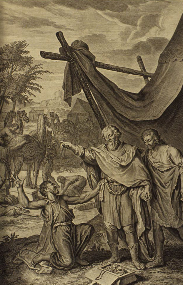 Abrahams servant swears to his Master, as in Genesis 24:9: "And the servant put his hand under the thigh of Abraham his master, and sware to him concerning that matter." (KJV); illustration from the 1728 Figures de la Bible; illustrated by Gerard Hoet (1648-1733) and others, and published by P. de Hondt in The Hague; image courtesy Bizzell Bible Collection, University of Oklahoma Libraries